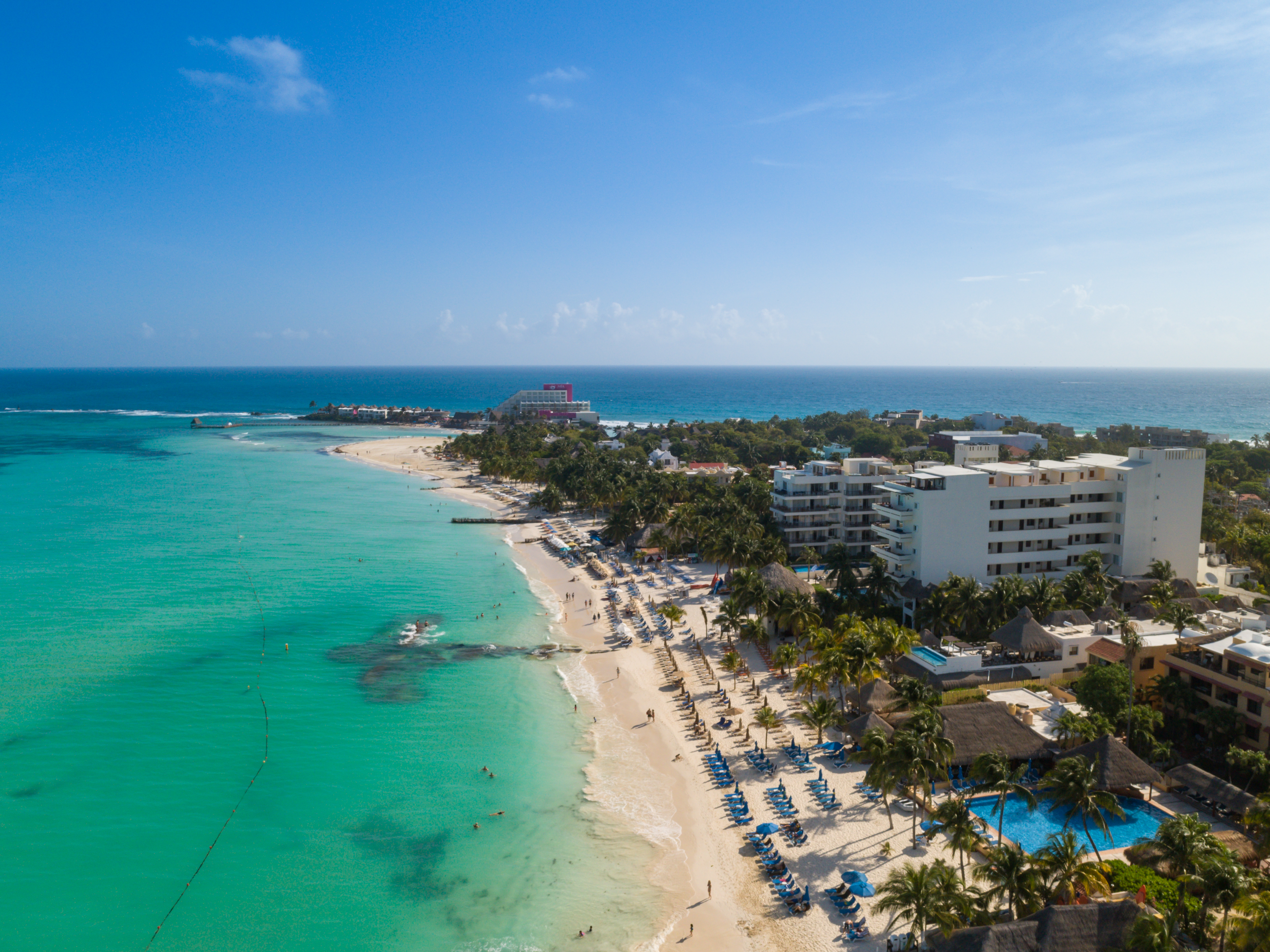 Caribbean Sea in Mexico